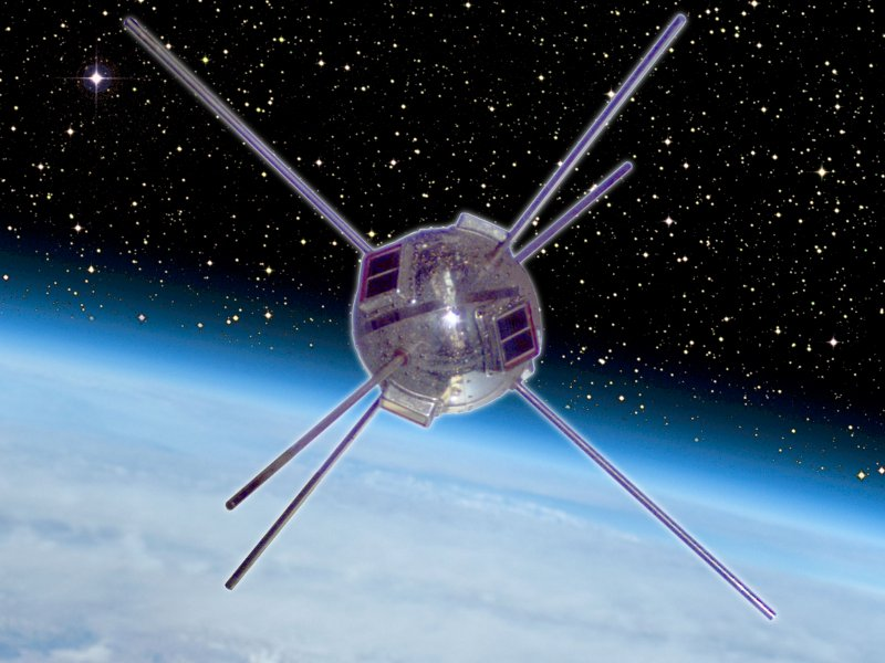 Vanguard 1 satellite (NASA). Composite illustration assembled from static display of satellite, Earth from orbit and telescope photo of stars.